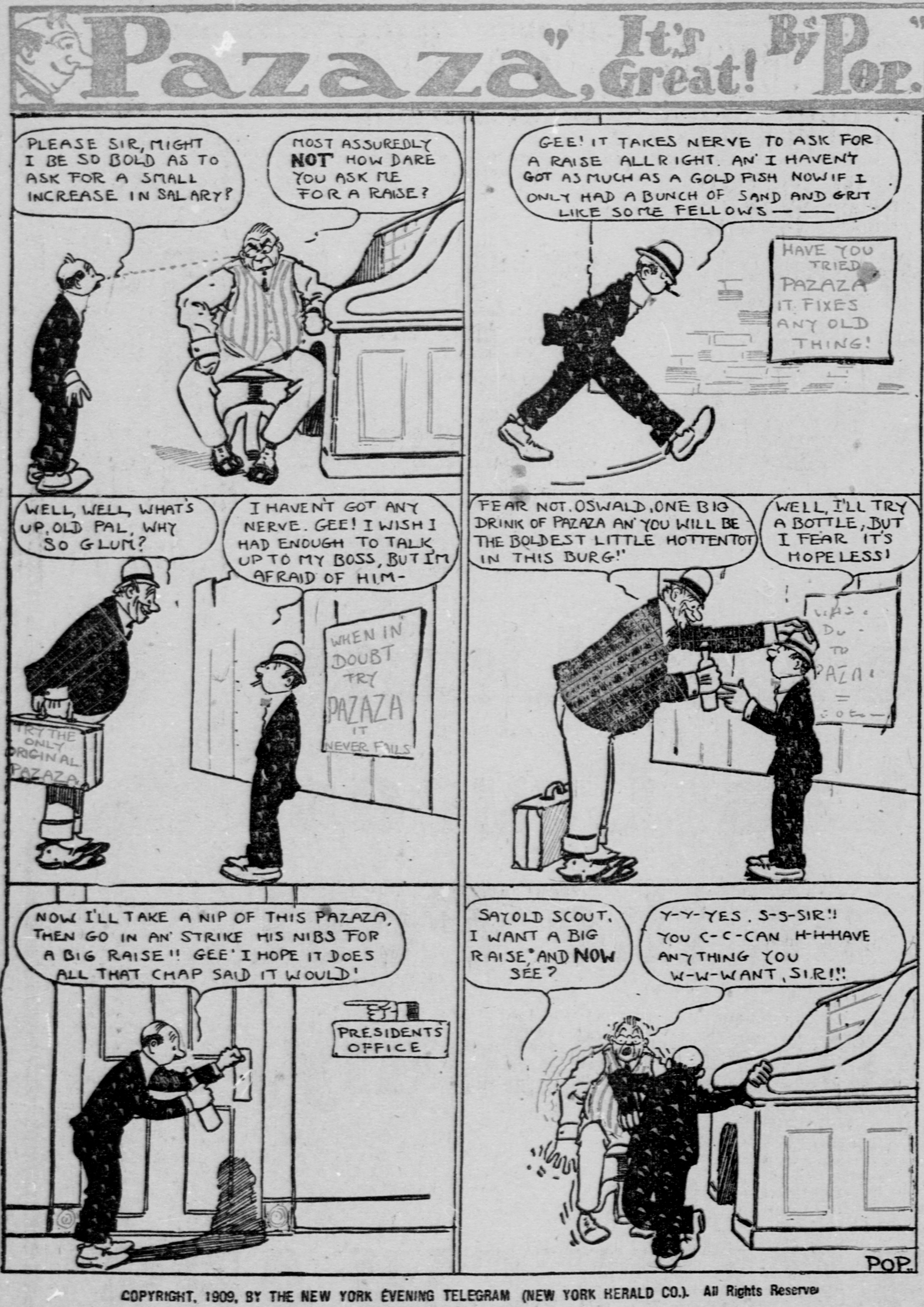 In this installment of Pop Momand's comic strip "PAZAZA", a man is afraid to ask his boss for a raise -- until he drinks Pazaza.